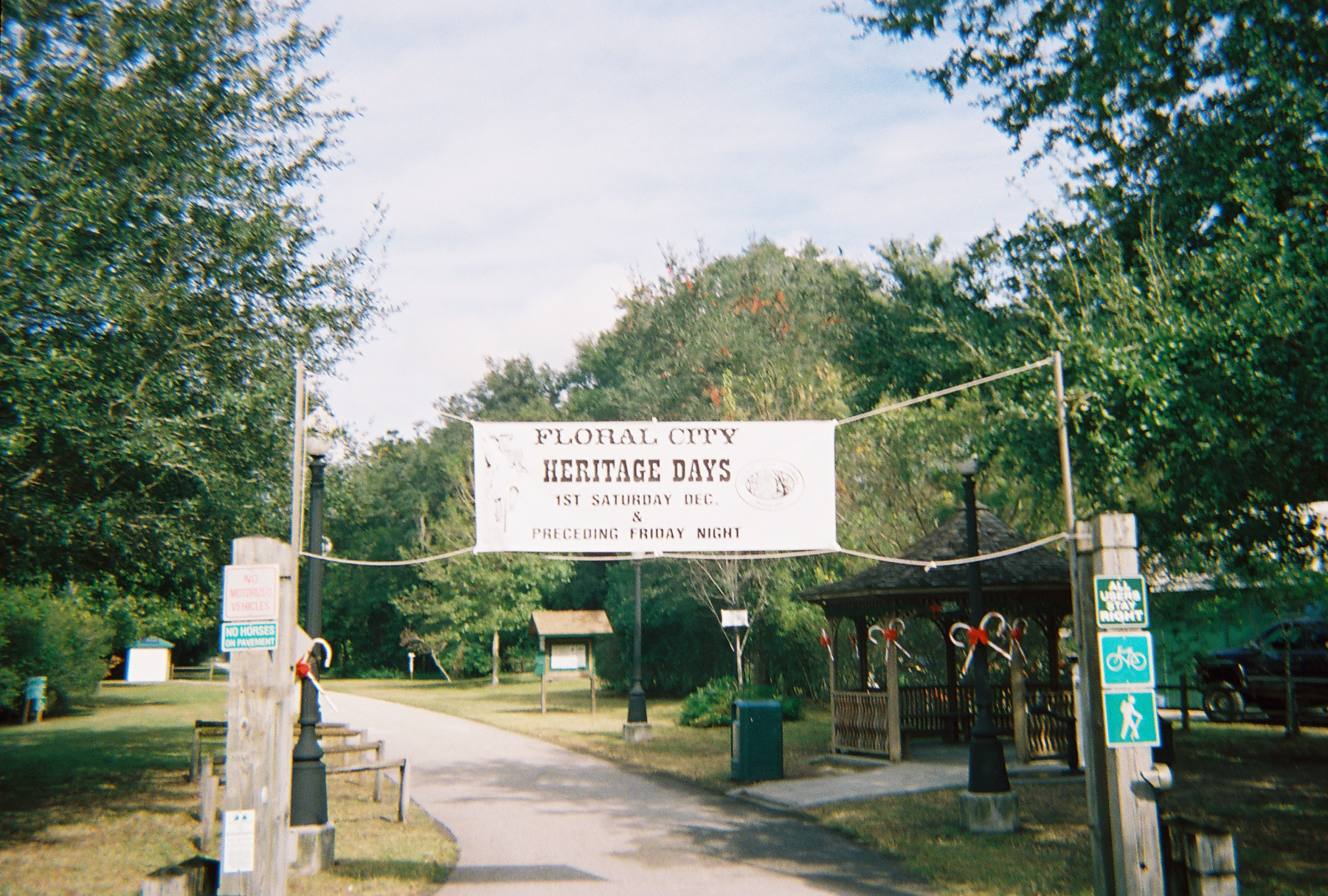 A banner over the Withlacoochee State Trail on the north side the crossing of Citrus County Road 48 in Floral City, Florida advertising their local "Heritage Days." Behind that gazebo is a historic plaque marking the site of the former Atlantic Coast Line Railroad Depot in Floral City. Across the trail from the gazebo are a series of old-fashioned bicycle parking posts.